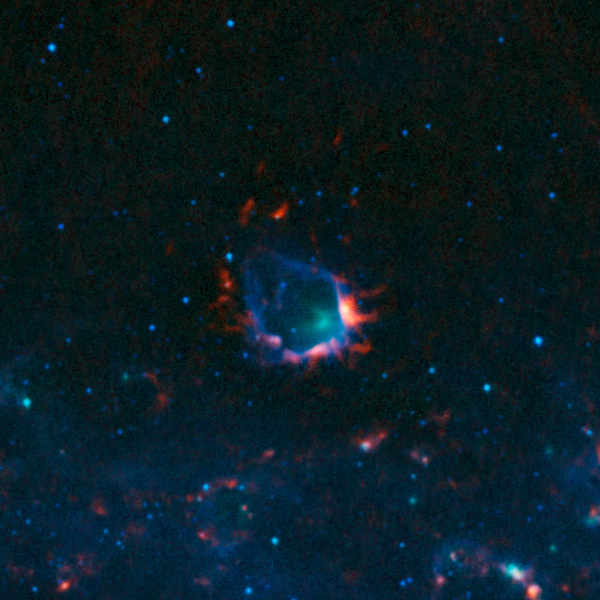 Colour-composite image of RCW120 as seen by the ATLASGAL survey. RCW 120 is a region where an expanding bubble of ionised gas about ten light-years across is causing the surrounding material to collapse into dense clumps that are the birthplaces of new stars. In this image, the ATLASGAL submillimetre-wavelength data are shown in red, overlaid on a view of the region in infrared light, from the Midcourse Space Experiment (MSX) in green and blue.